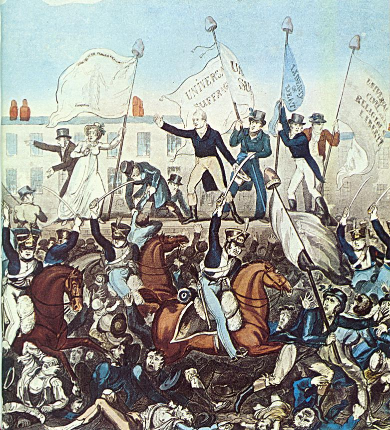 To Henry Hunt, Esq., as chairman of the emeeting assembled in St. Peter's Field, Manchester, sixteenth day of August, 1819, and to the female Reformers of Manchester and the adjacent towns who were exposed to and suffered from the wanton and fiendish attack made on them by that brutal armed force, the Manchester and Cheshire Yeomanry Cavalry, this plate is dedicated by their fellow labourer, Richard Carlile:[1] a coloured engraving that depicts the Peterloo Massacre (military suppression of a demonstration in Manchester, England by cavalry charge on August 16, 1819 with loss of life) in Manchester, England. All the poles from which banners are flying have Phrygian caps or liberty caps on top. Not all the details strictly accord with contemporary descriptions; the banner the woman is holding should read: Female Reformers of Roynton -- "Let us die like men and not be sold like slaves".